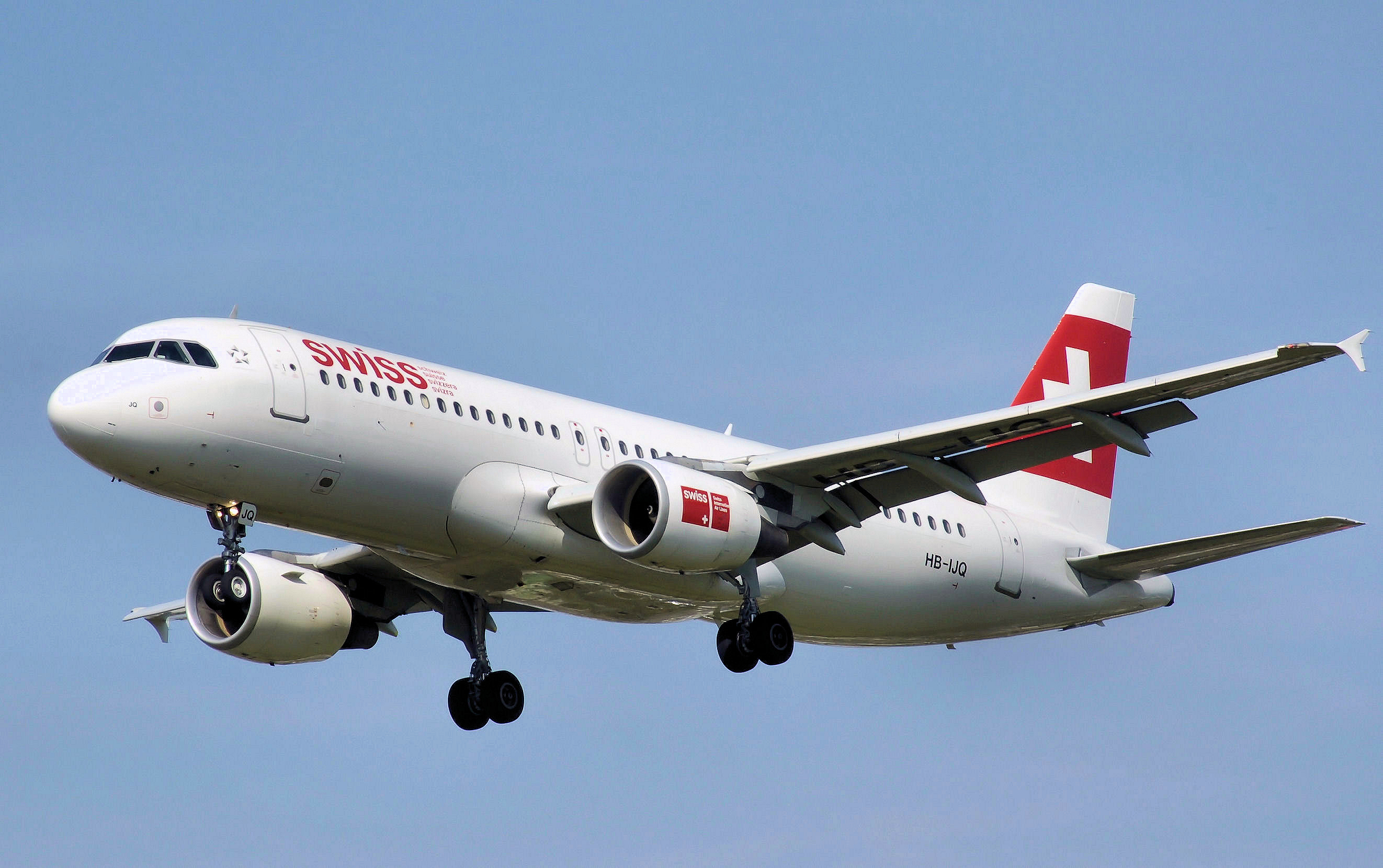 Swiss International Air Lines Airbus A320-200 (HB-IJQ) landing at from London Heathrow Airport. Photographed by Adrian Pingstone in August 2007 and placed in the public domain.